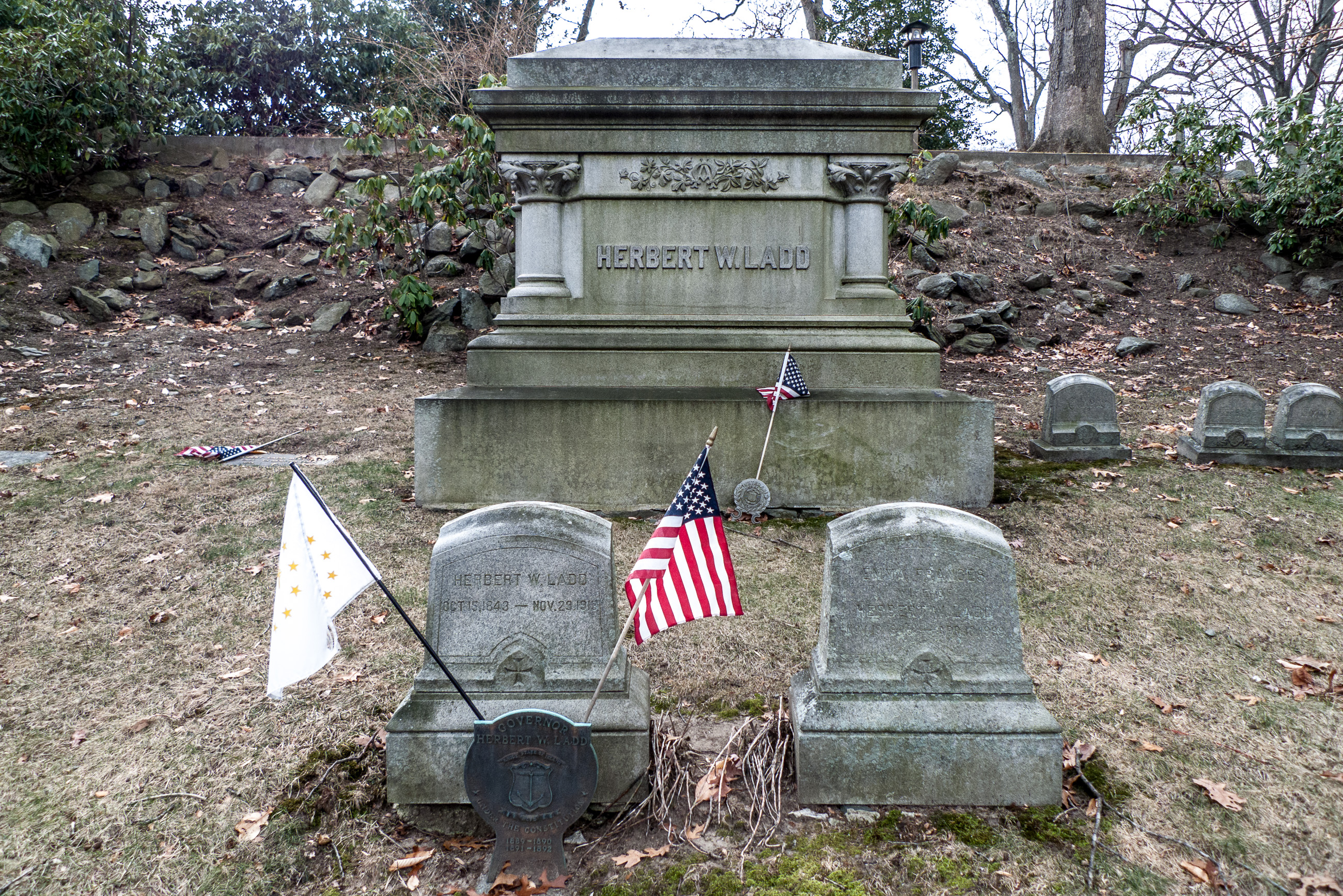 RI Governor Herbert W Ladd Grave in Swan Point Cemetery, Providence. Taken January 2015.